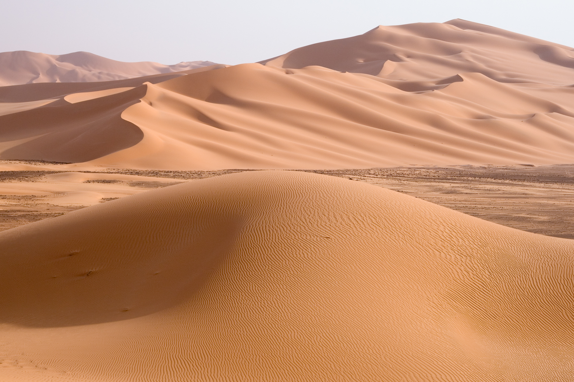 Sand dunes of Wan Caza in the Sahara desert region of Fezzan in Libya